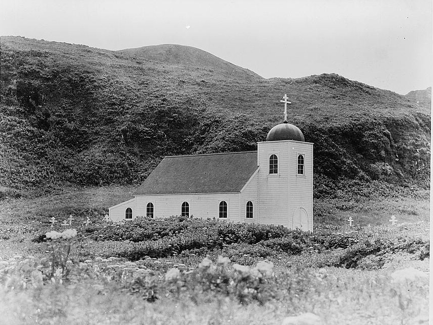 Russian Orthodox church and graveyard at Attu Island, Alaska, 1938. Built in 1932, it replaced an old church, which was a grass-roofed barabara built of driftwood. The church served the community of 34 Aleutians in Attu Village before the World War II (Attu before the war). Original caption: This is the Russian Orthodox church at Attu Village. It ministered to the spiritual needs of the two score natives living on Attu Island at the time of the Japanese invasion. Some of the Island's wealth of flowers can be seen coming into bloom beside the church. Visitors to the Aleutians have expressed surprise at finding within easy reach masses of Alpine flowers which, in this country, and in Europe, mountain climbers scale the highest peaks just to see.